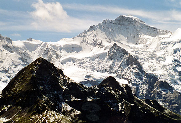 Jungfrau with Jungfraujoch - Grindelwald, A mountain in the alps in Switzerland